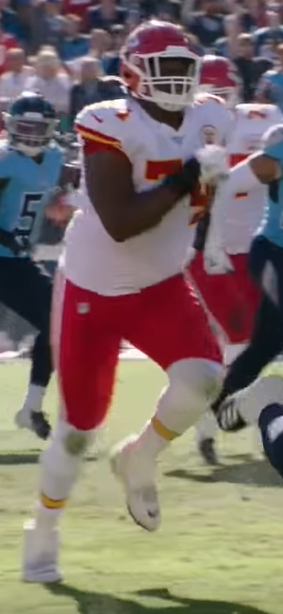 Martinas Rankin 2019. Image taken from video Titans Mic'd Up vs. Chiefs (Week 10) | Sounds of the Game ~ 01:57